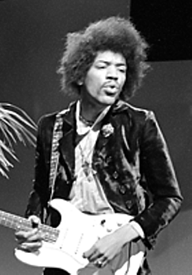 Hendrix